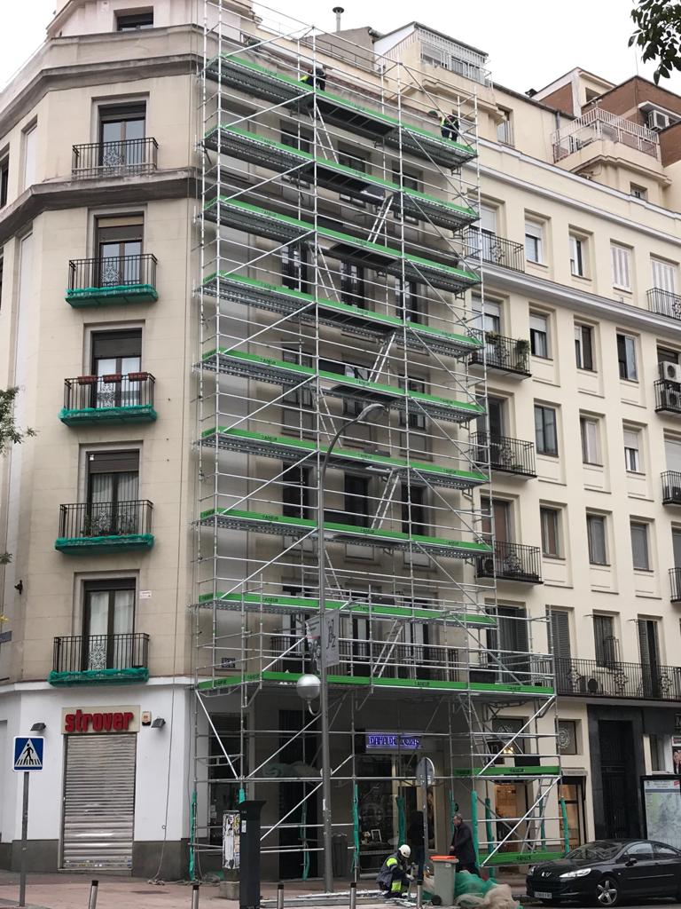 Aneur scaffold with stair and crosswalk.